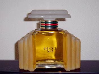 Gucci No. 3 Factice Perfume Bottle